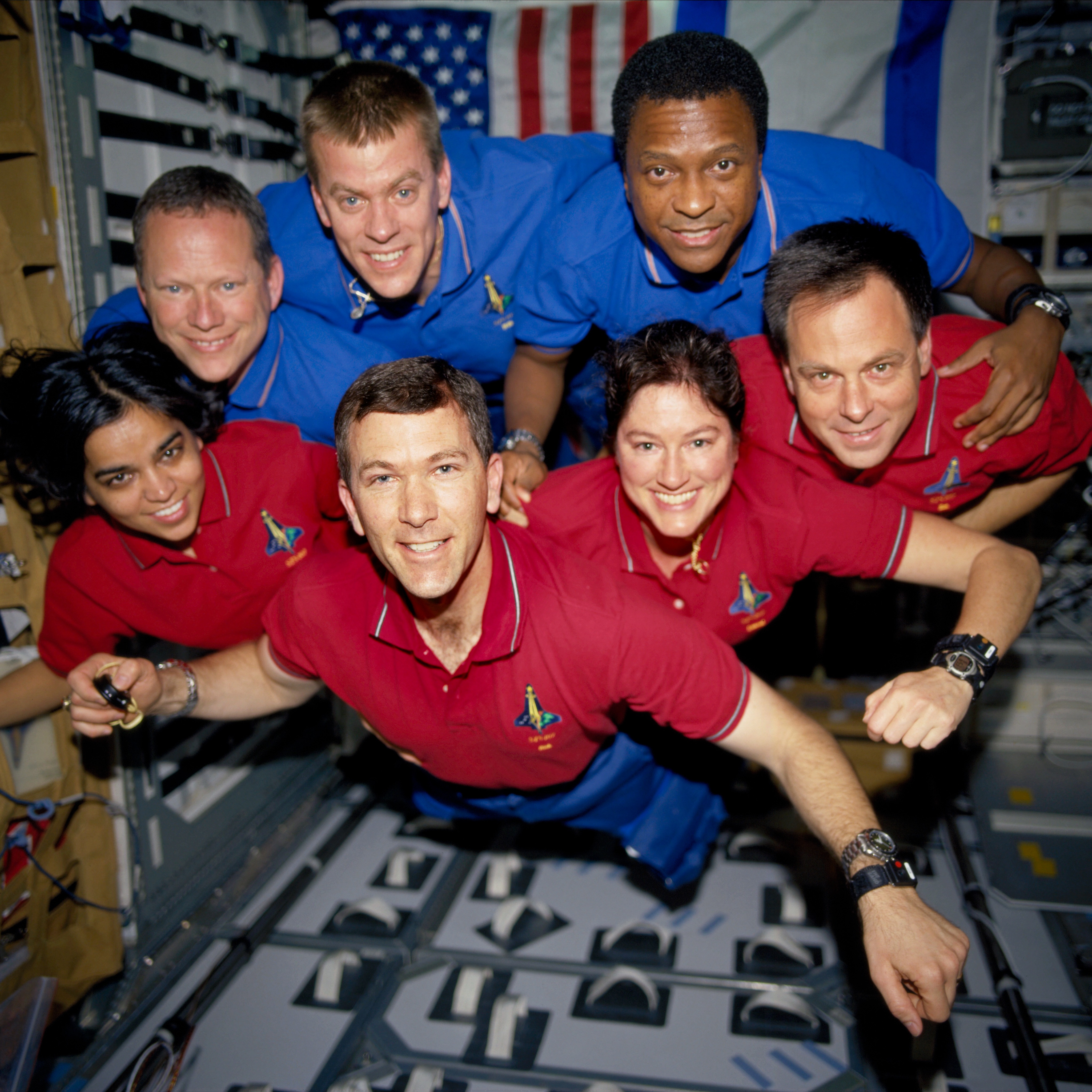 The STS-107 crewmembers strike a ‘flying’ pose for their traditional in-flight crew portrait in the SPACEHAB Research Double Module (RDM) aboard the Space Shuttle Columbia. From the left (bottom row), wearing red shirts to signify their shift’s color, are astronauts Kalpana Chawla, mission specialist; Rick D. Husband, mission commander; Laurel B. Clark, mission specialist; and Ilan Ramon, payload specialist. From the left (top row), wearing blue shirts, are astronauts David M. Brown, mission specialist; William C. McCool, pilot; and Michael P. Anderson, payload commander. Ramon represents the Israeli Space Agency.